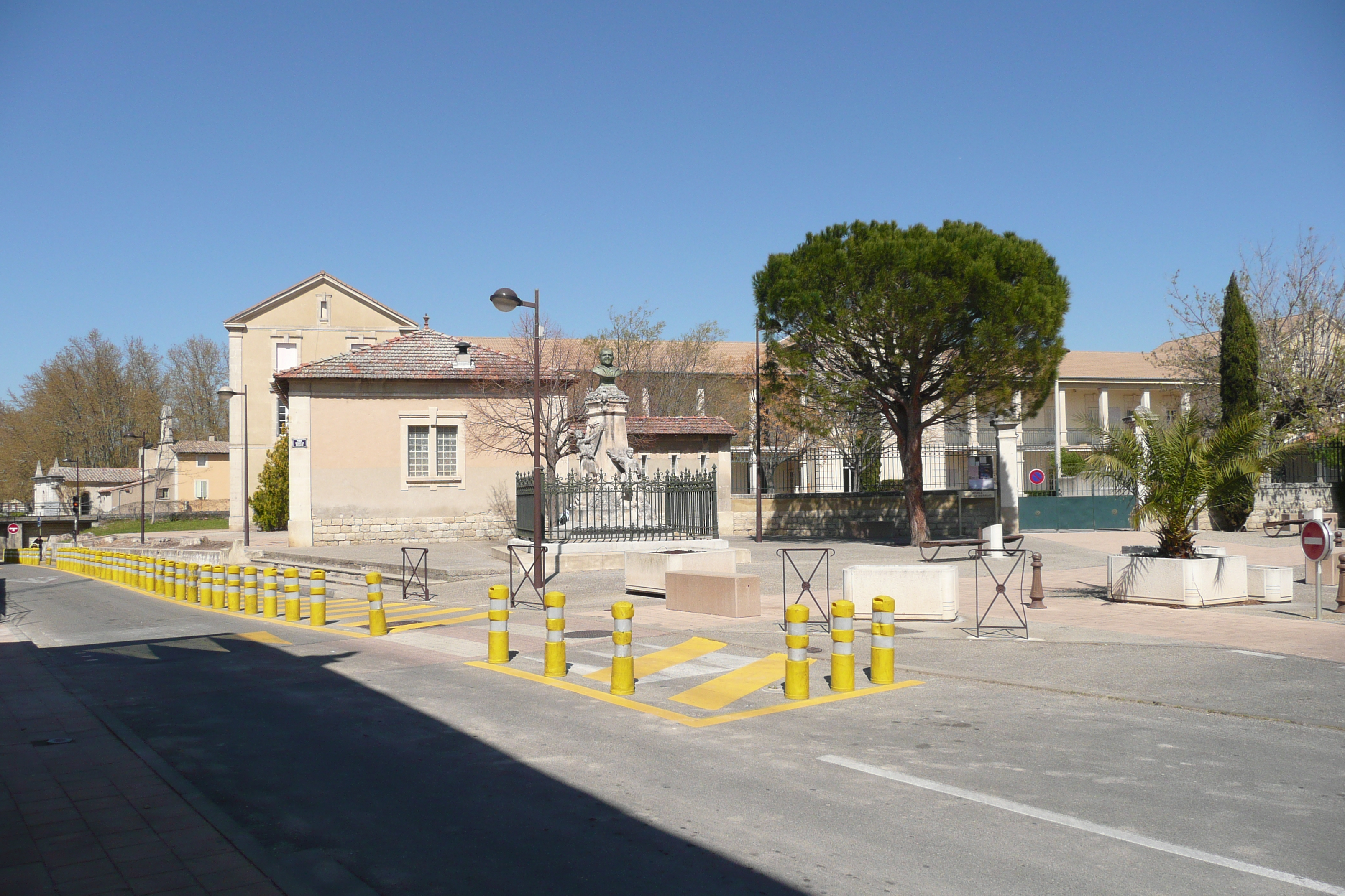 Ecole Elémentaire Sénateur Béraud, school at Monteux, Vaucluse, France. In the foreground: "Place Sénateur Beraud" with monument, tree, palm. "Boulevard de Loriol" to the left.